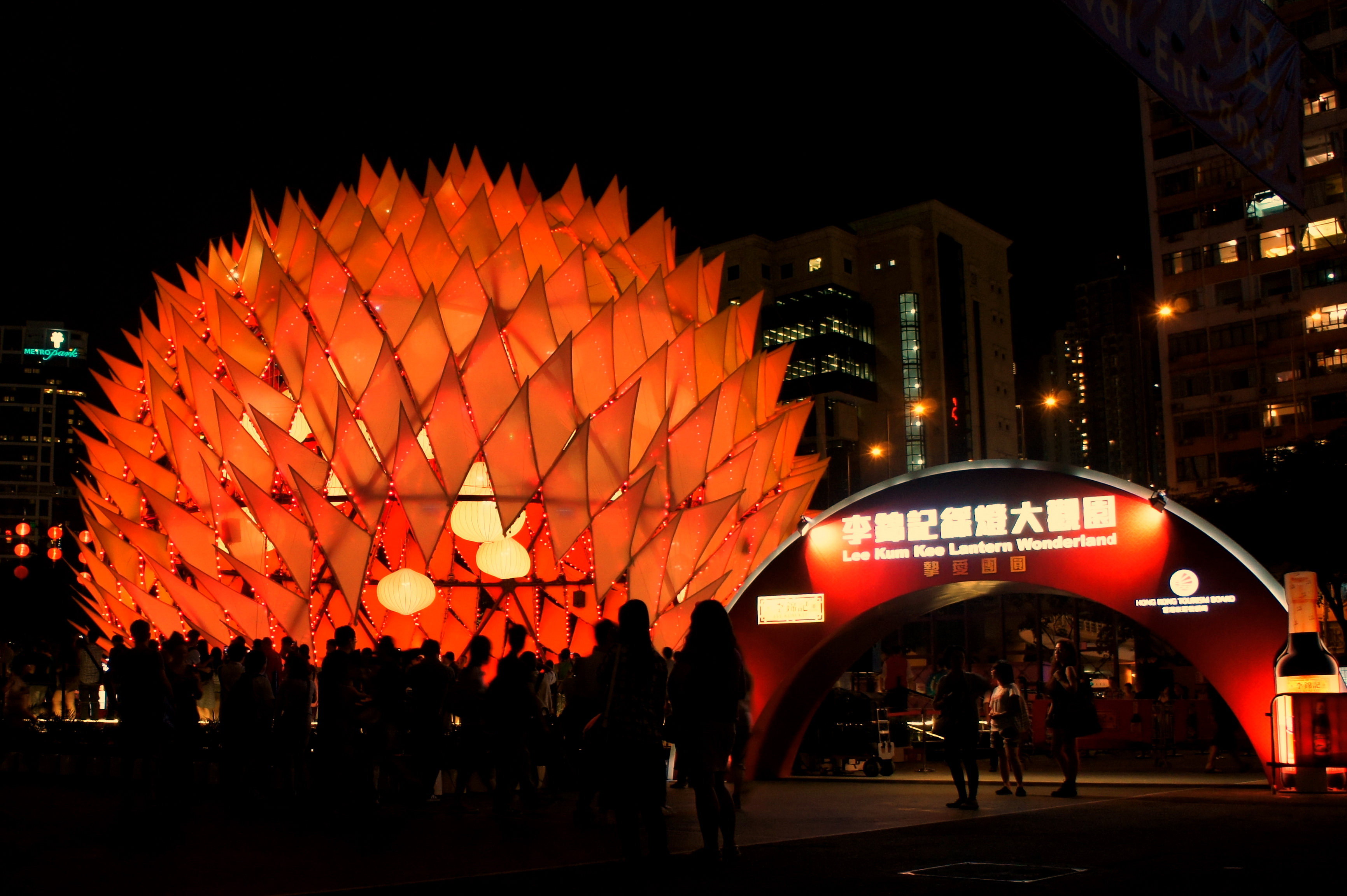 Lee Kum Kee Lantern Wonderland 2012, Victoria Park, Causeway Bay, Hong Kong.